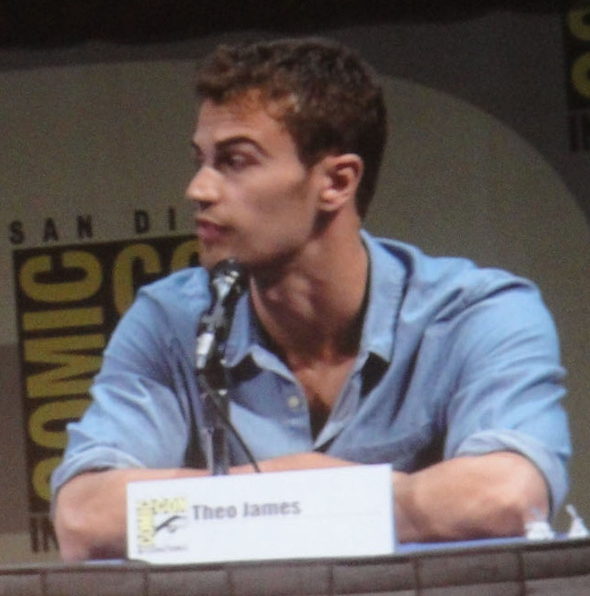 Theo James at 2011 Comic-Con